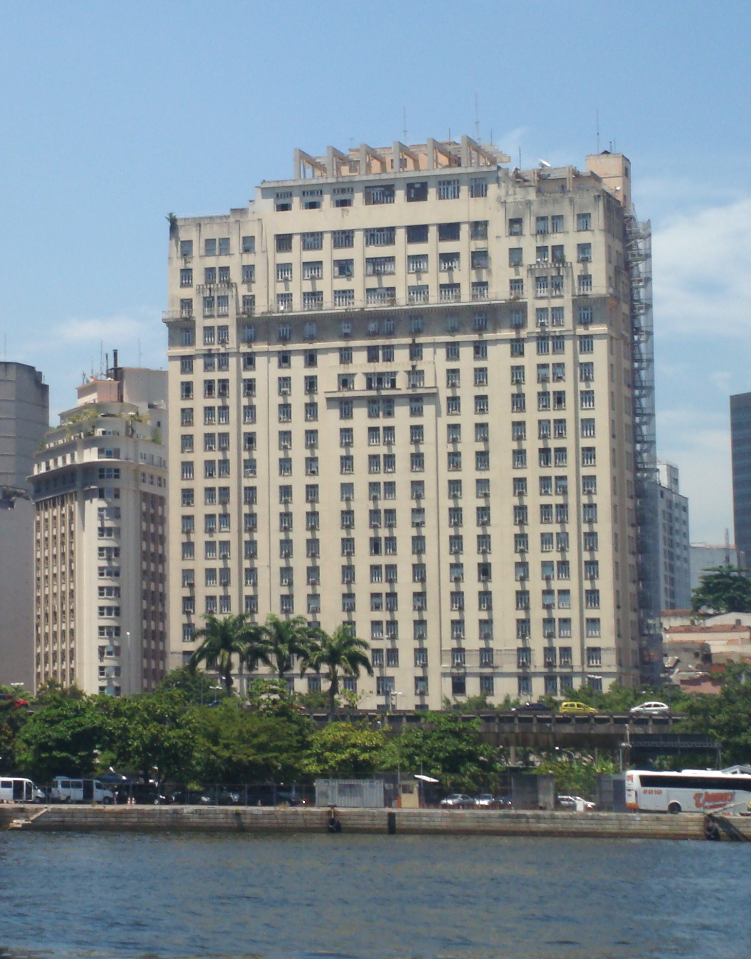 "A Noite" building in Mauá Square, Rio de Janeiro city